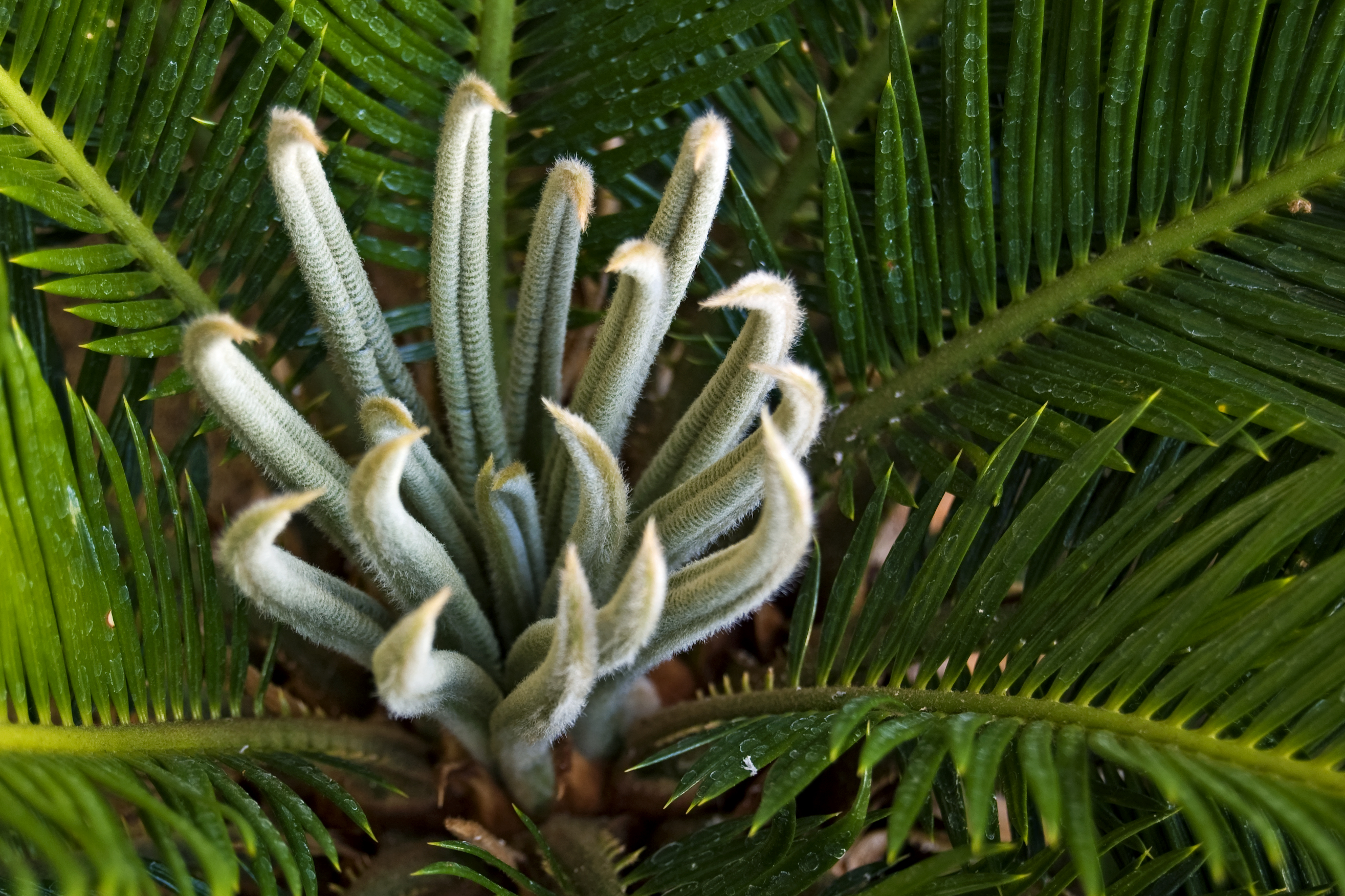 The photograph is an excellent example of involute vernation, in a cycad.